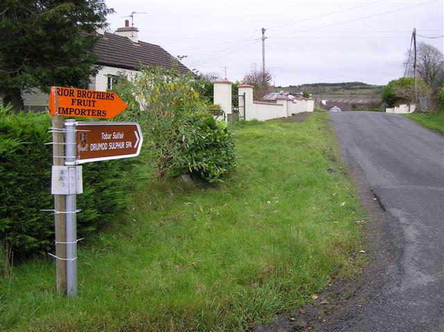 Road at Gortacashel Heading SSE